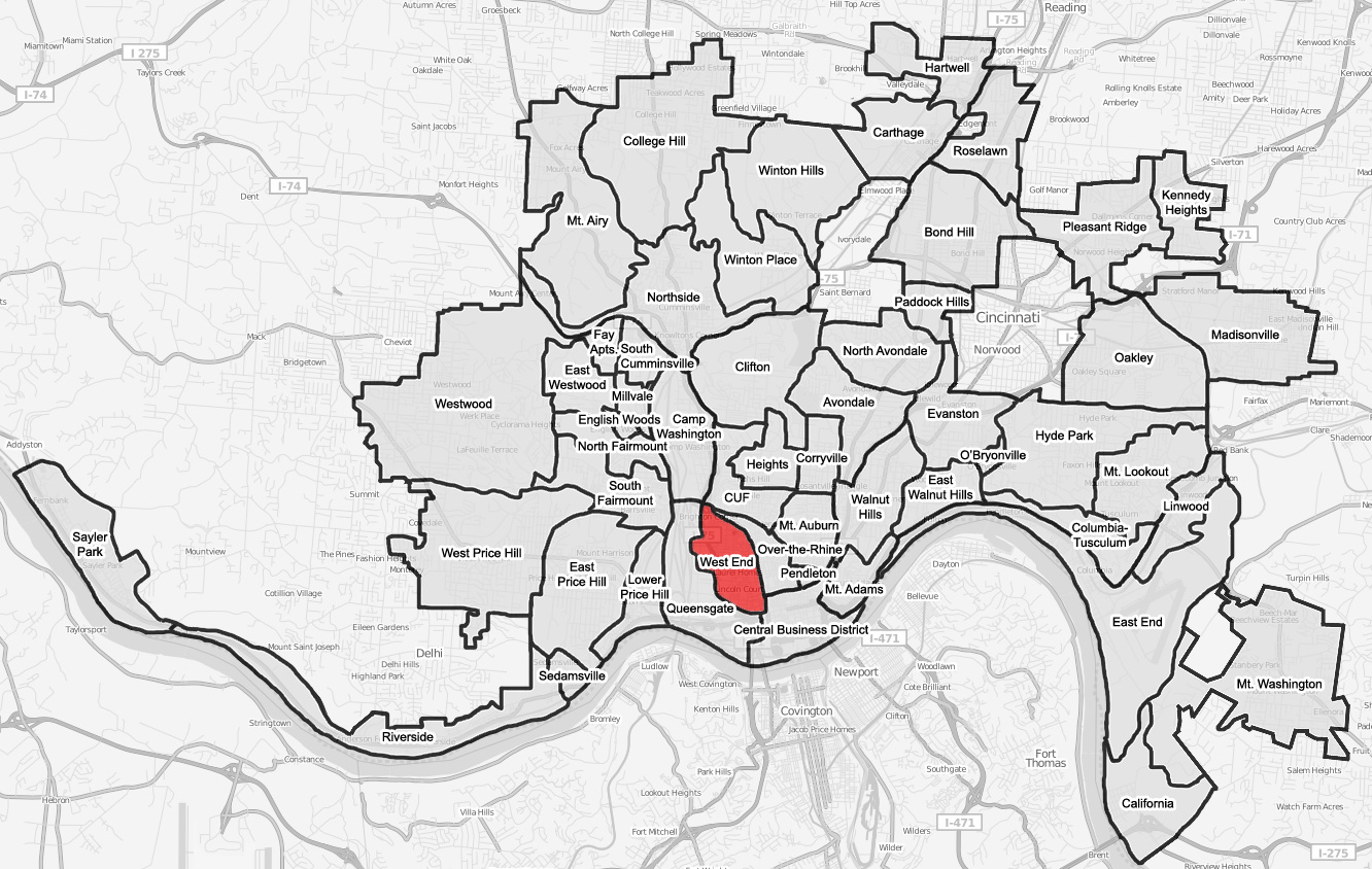 A map of the neighborhood of West End within Cincinnati, Ohio. Neighborhood lines are based on information from This street map is derived from a free map.